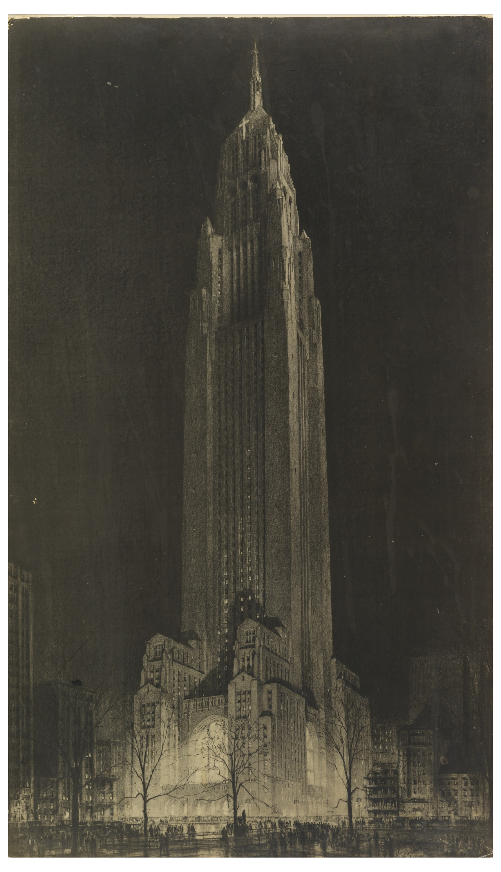 Night scene of a skyscraper consisting of a massed cluster of low tiered sections below culminating in a monumental tower. The structure is illuminated by the city street lights below and streams of light from a chapel- like central section. A white cross is visible at the top of the tower. Pedestrians walk among silhouetted leafless trees below.